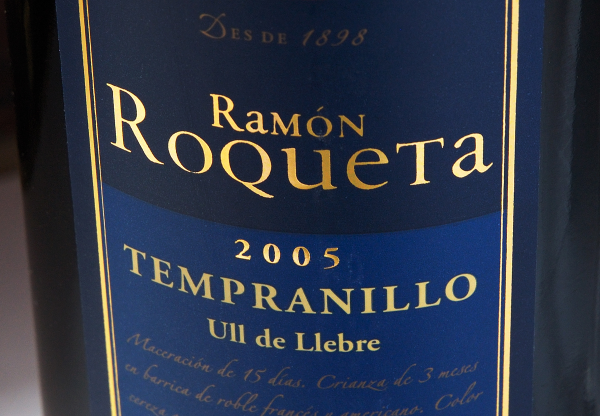 Close-up of wine bottle label showing both Tempranillo name and Ull de Llebre synonym Shot with Nikon D70s